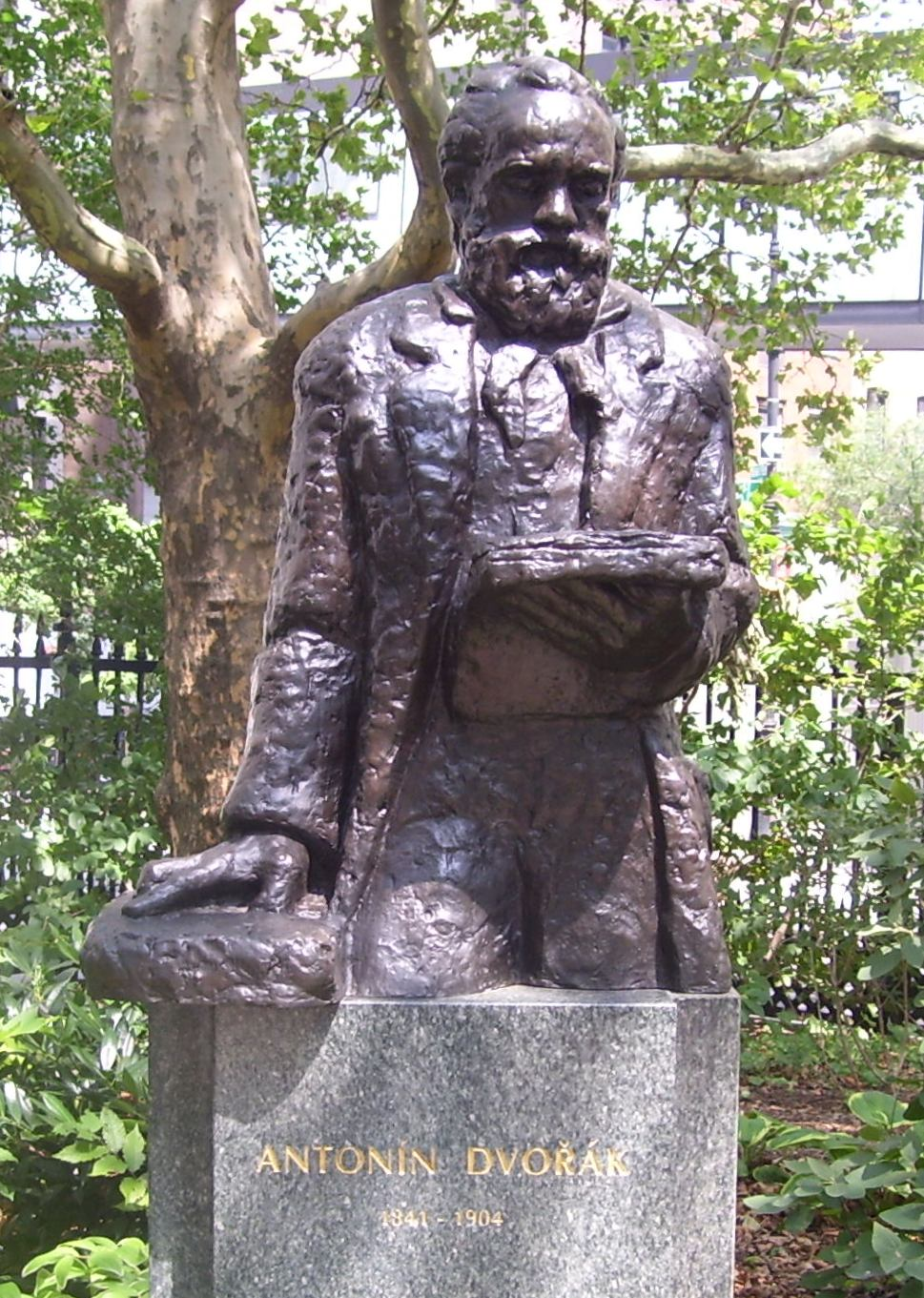 Statue of composer Atonin Dvorak in the eastern half of Stuyvesant Square in Manhattan, New York City. (The park is bisected by Second Avenue.)